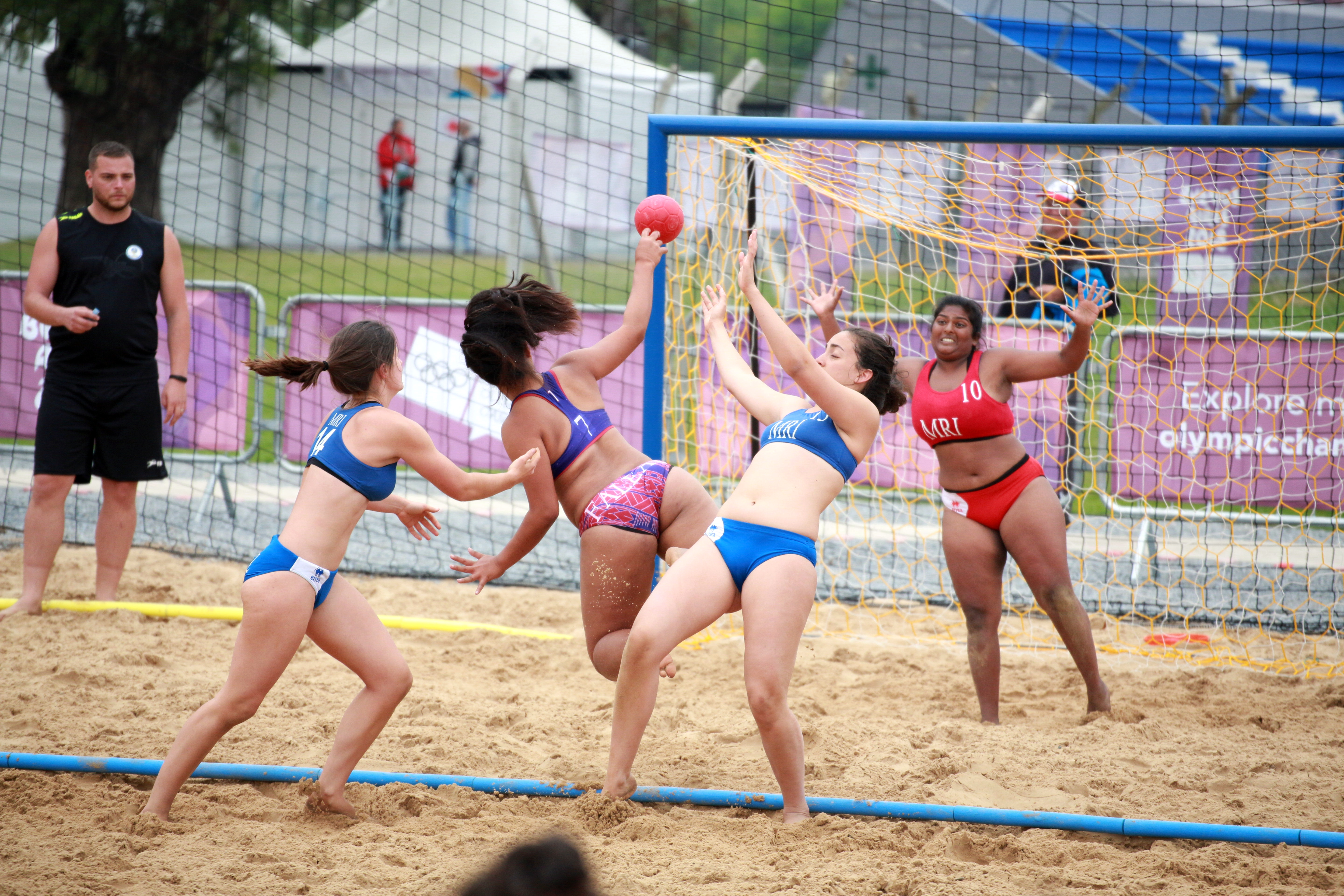 Beach handball at the 2018 Summer Youth Olympics at 12 October 2018 – Girls Placement Match 11-12 – American Samoa-Mauritius 2:1